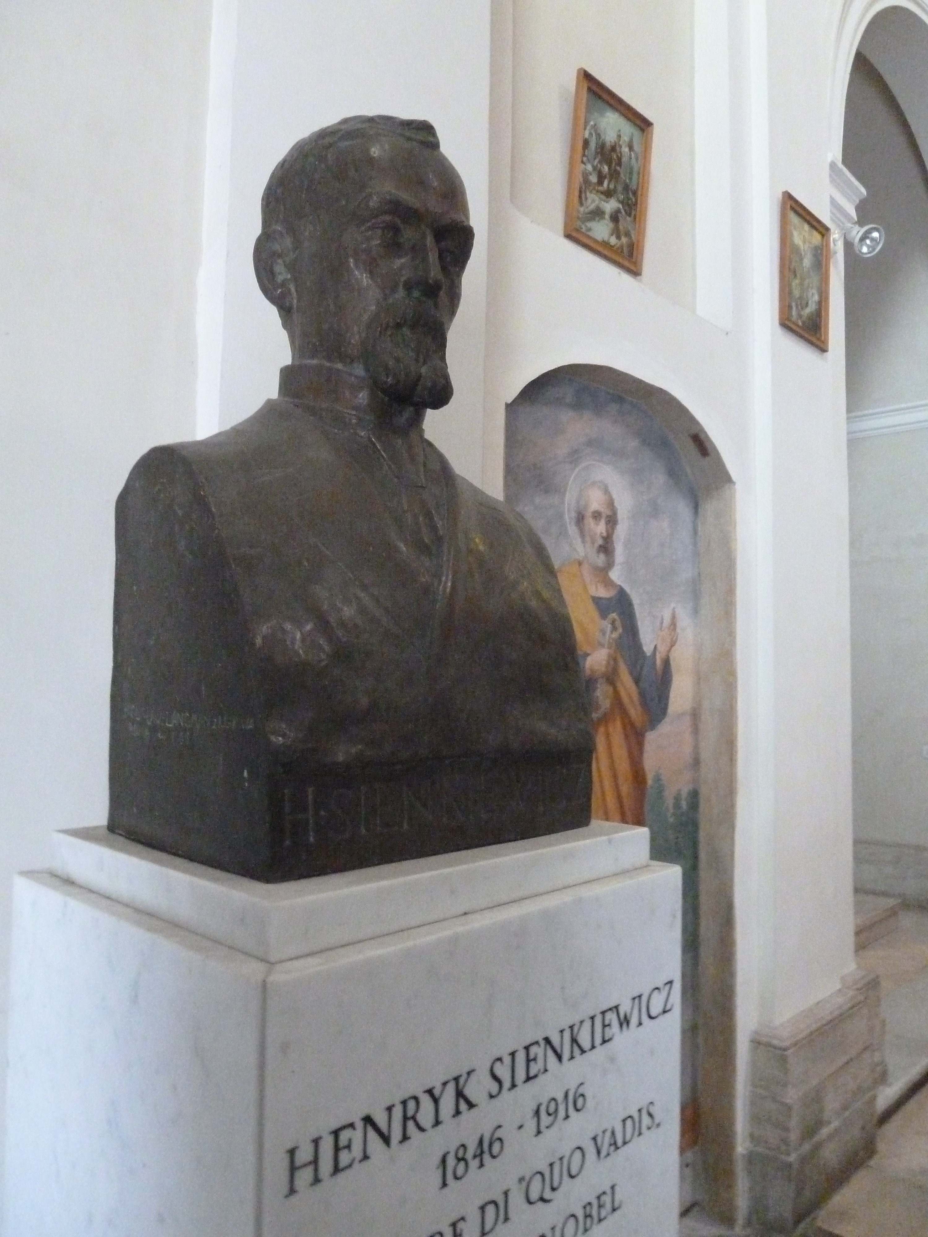 Santa Maria in Palmis , Rome, Italy